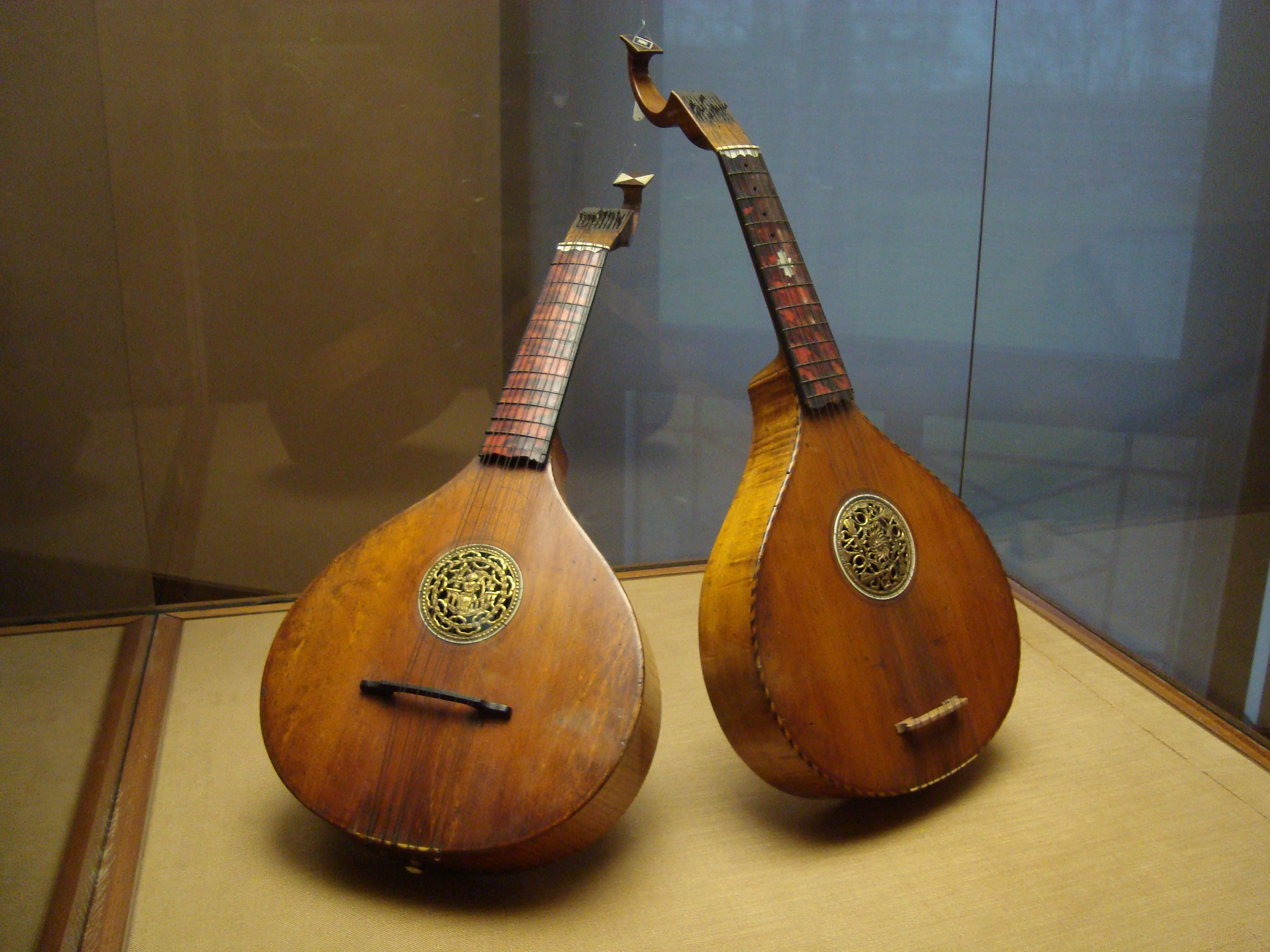 Cistrum from the 18th century, London. Collections Museo Nazionale degli Strumenti Musicali di Roma Reference citola o cistrum inglese. Museo Nazionale degli Strumenti Musicali di Roma. "Cistrum inglese a 5 corde doppie. Il costruttore di questo strumento è John Preston, attivo a Londra dal 1774 al 1800. ..." (in